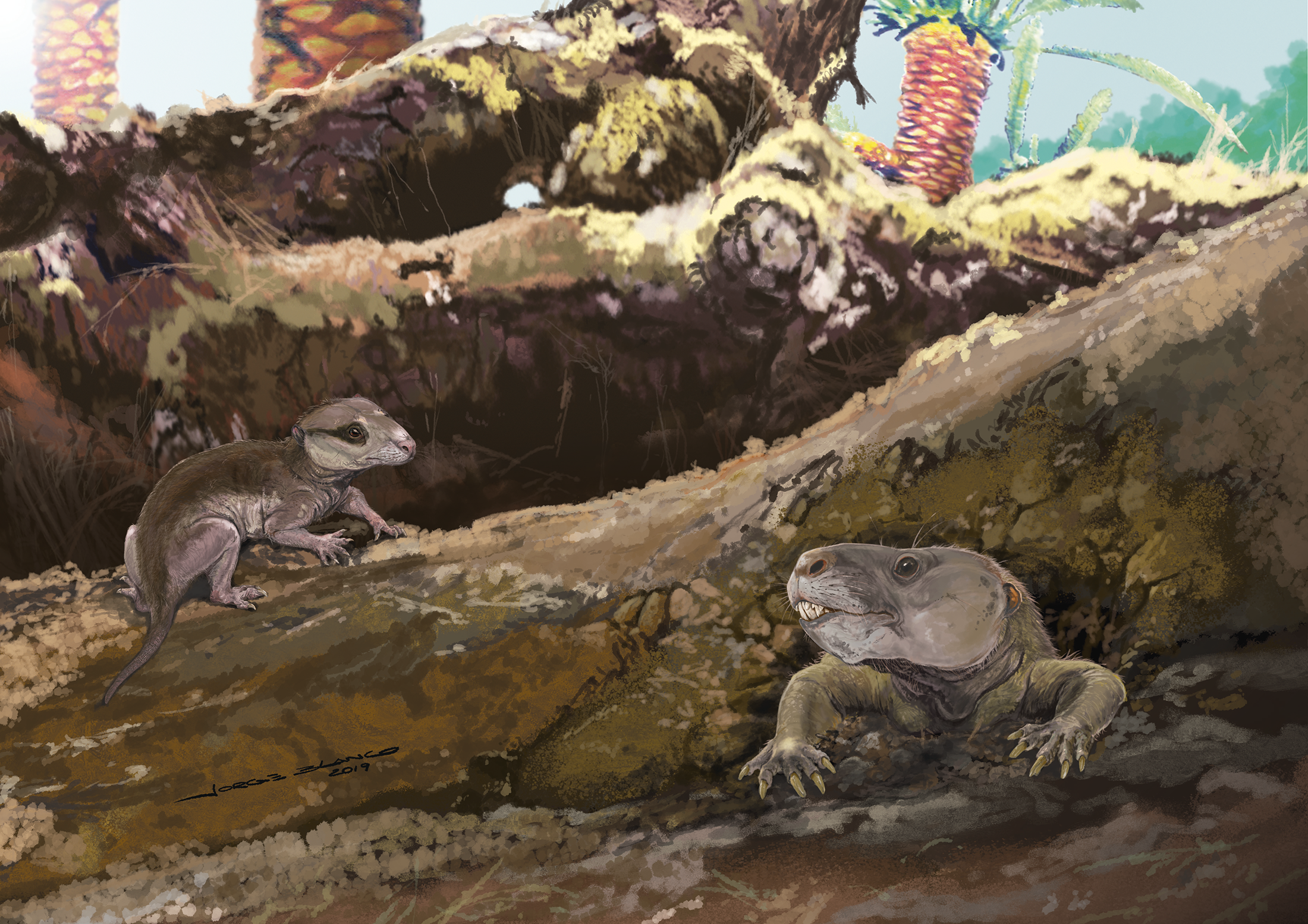 Paleoartistic reconstruction of Brasilodon quadrangularis (left) and Riograndia guaibensis (right), two abundant probainognathian cynodonts from the Riograndia AZ of the Candelária Sequence, Santa Maria Supersequence (Brazil), which exhibits different morphologies in skull, dentition and locomotor apparatus.